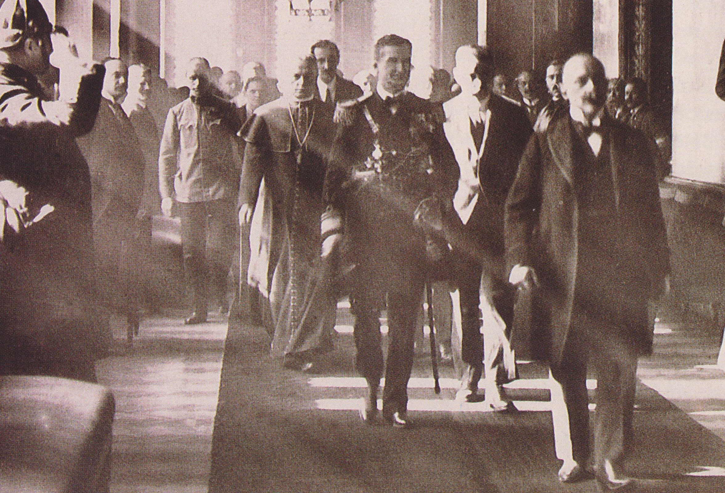 Arrival of Vice Admiral Miklós Horthy, the newly-elected Regent of Hungary to the Parliament of Hungary on 1 March 1920. Behind him is Prime Minister Károly Huszár.